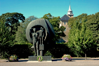 The Norwegian National Monument on the Akershus Castle in Oslo